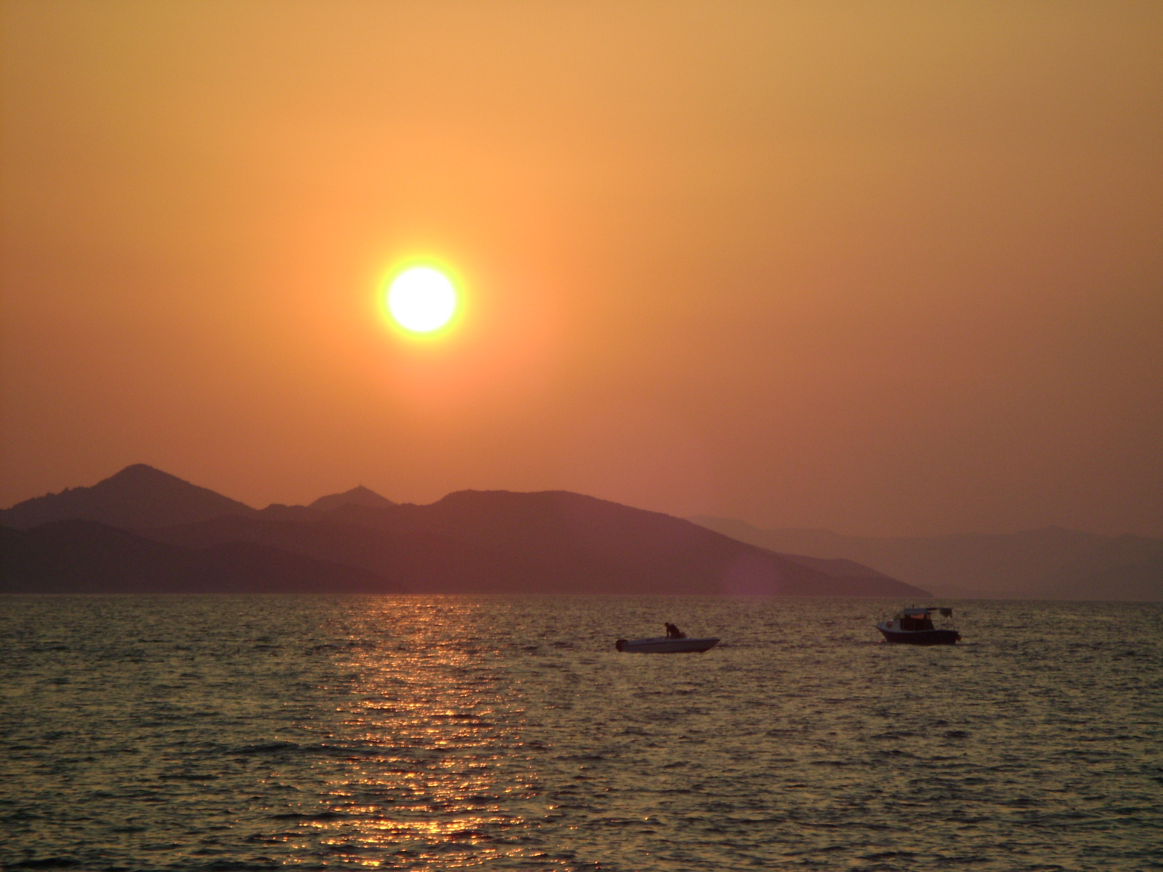 Picture of Lopudn island, during sunset